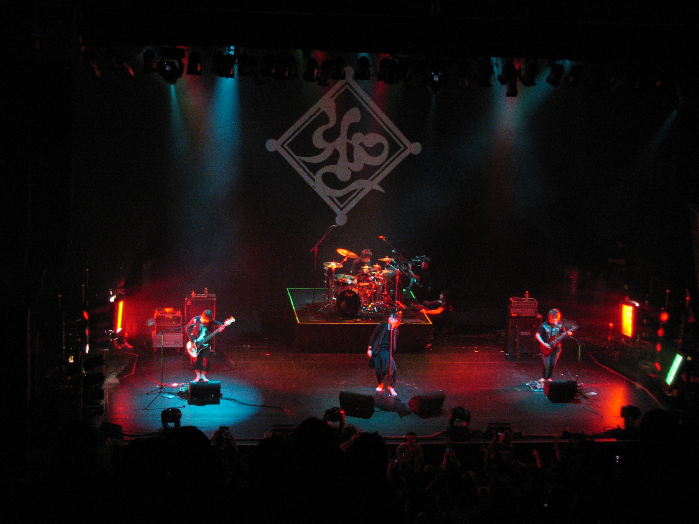 Mucc performing at the JRock Revolution festival.